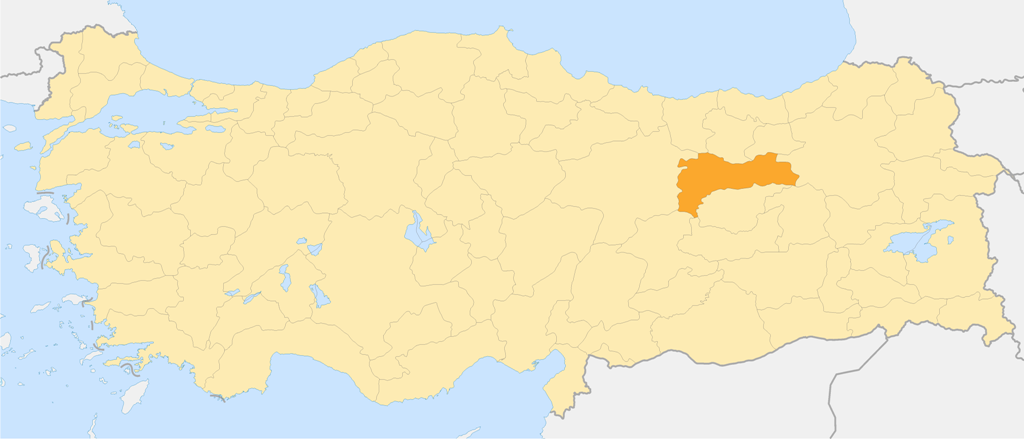 Shows the location of the province Erzincan in Turkey